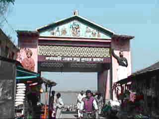 Pathuria